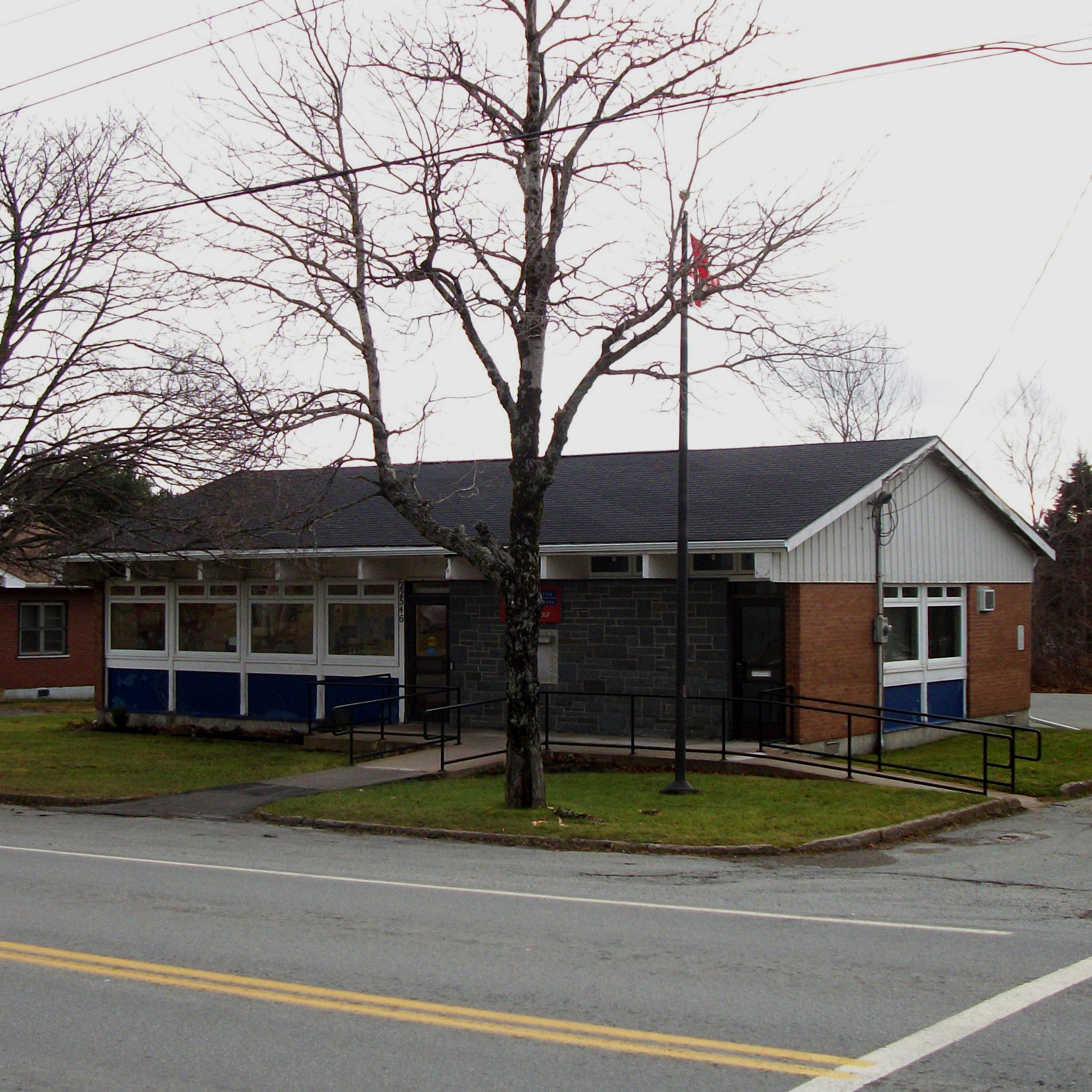 Federal post office in Sheet Harbour, Halifax County, Nova Scotia